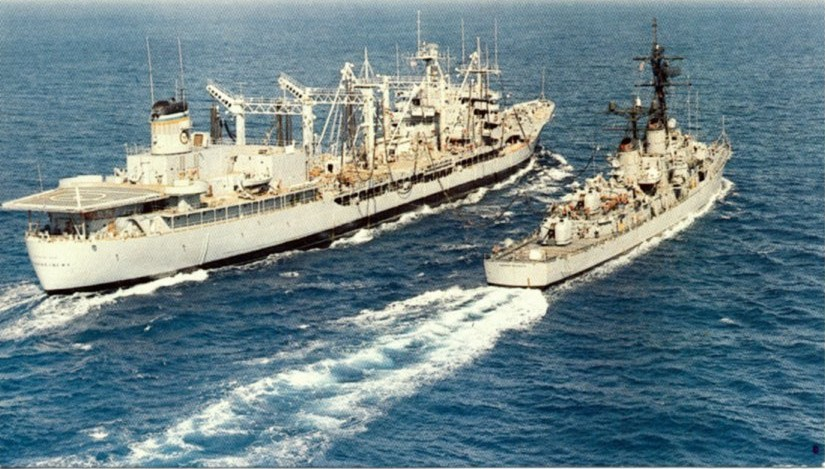 The U.S. Military Sealift Command fleet oiler USNS Mississinewa (T-AO-144) refueling the destroyer USS Forrest-Sherman (DD-931). As Mississinewa was turned over to the MSC on 15 November 1976 and Forrest Sherman was decommissioned on 5 November 1982, the photo was taken between these dates.